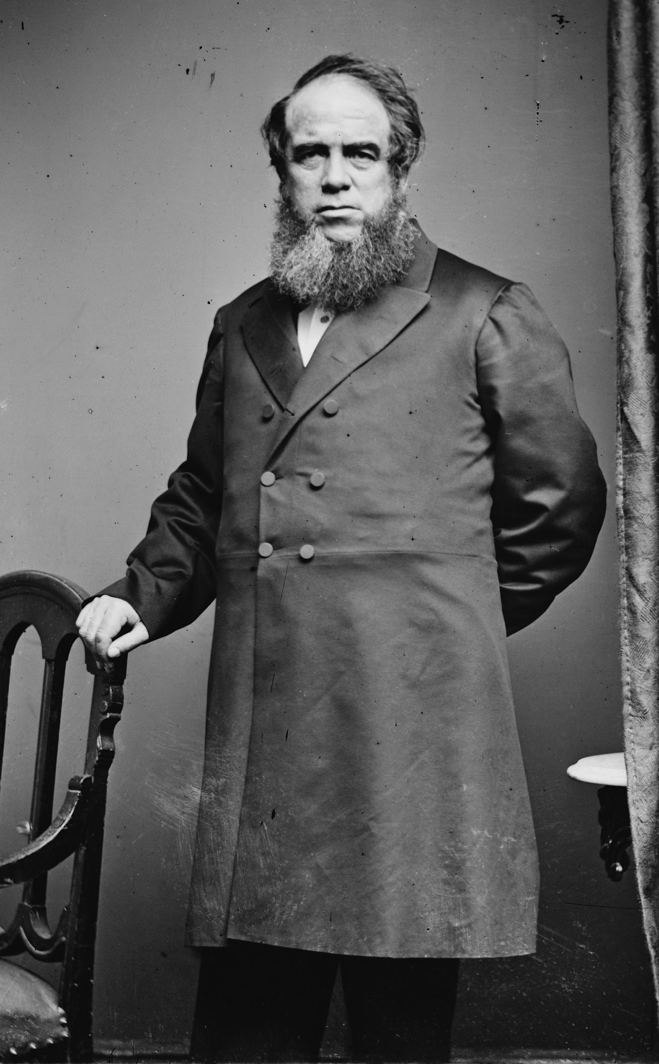 Francis William Kellogg. Library of Congress description: "Kellogg, Hon. Francis William of Mich. Raised 2nd, 3rd & 6th Regts. of Infantry U.S.A. Col. of 3rd Mich. Inf.".